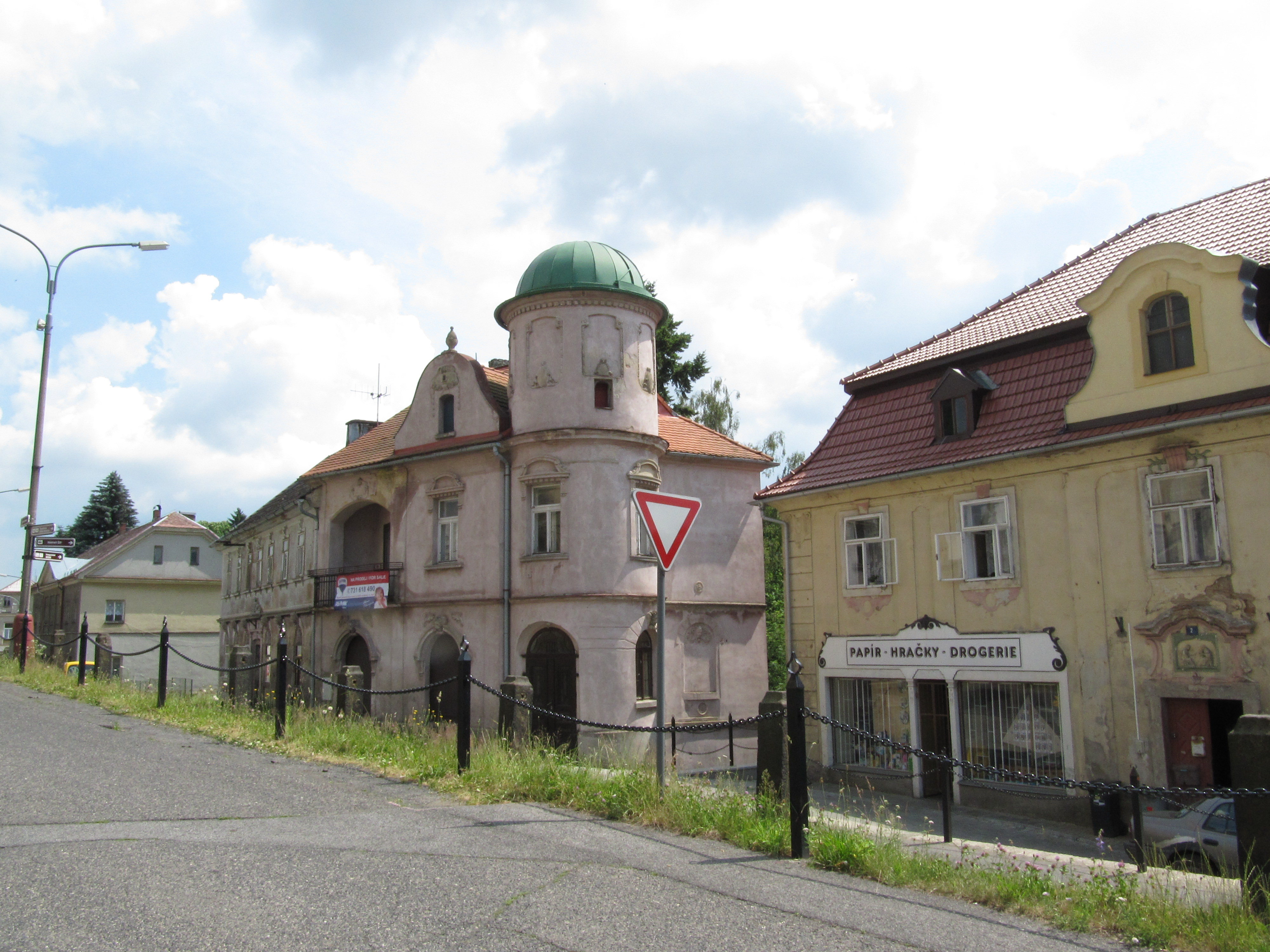 Mikulášovice in Děčín District, Czech Republic. Old houses in the center of the towb.